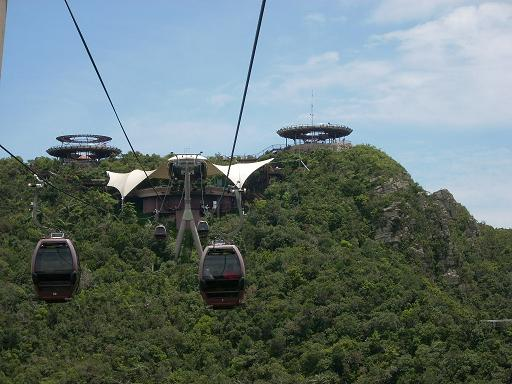 View of cable car top station